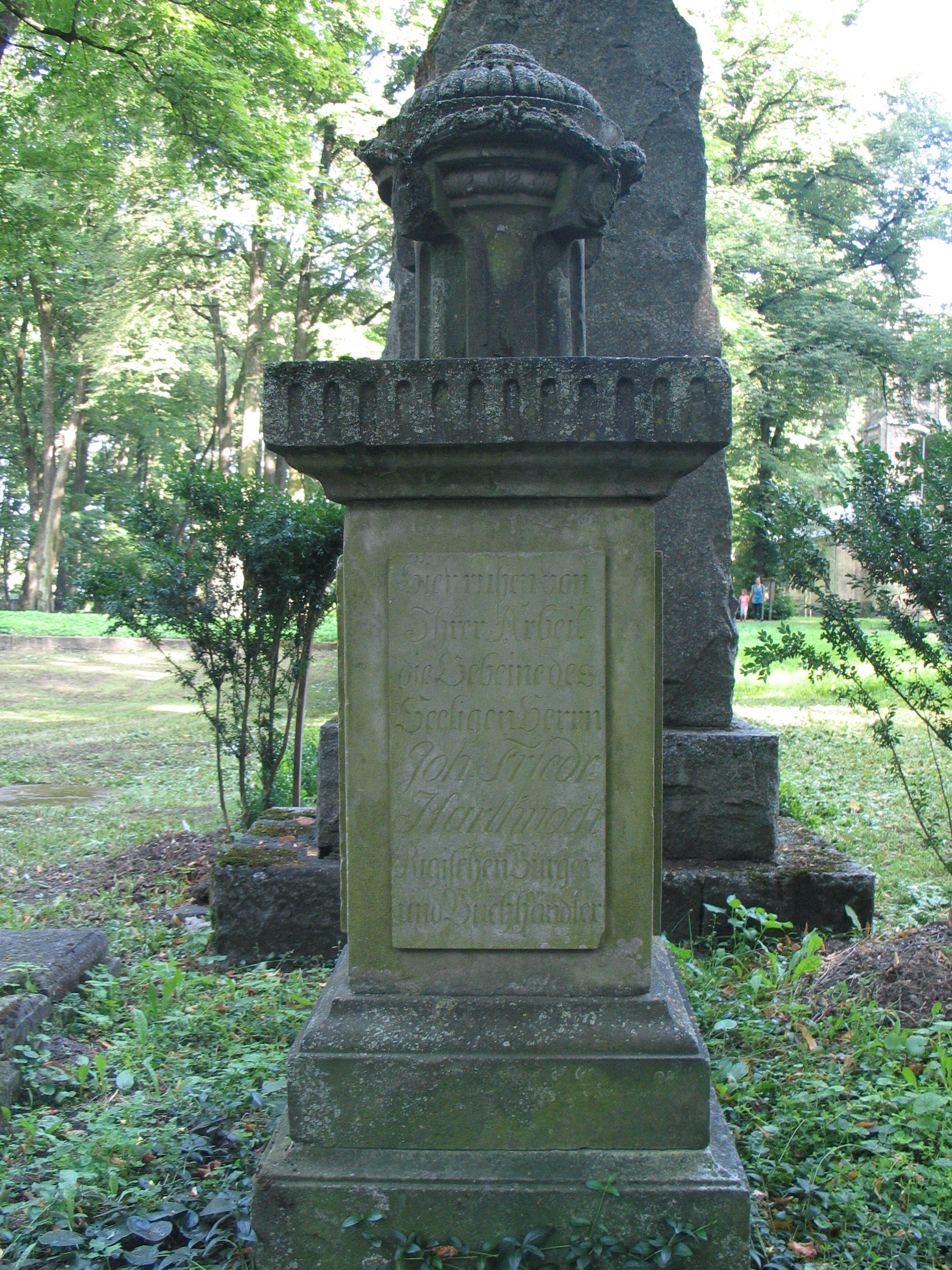 Grave of Johann Friedrich Hartknoch at the Great Cemetery (Lielie kapi) in Riga